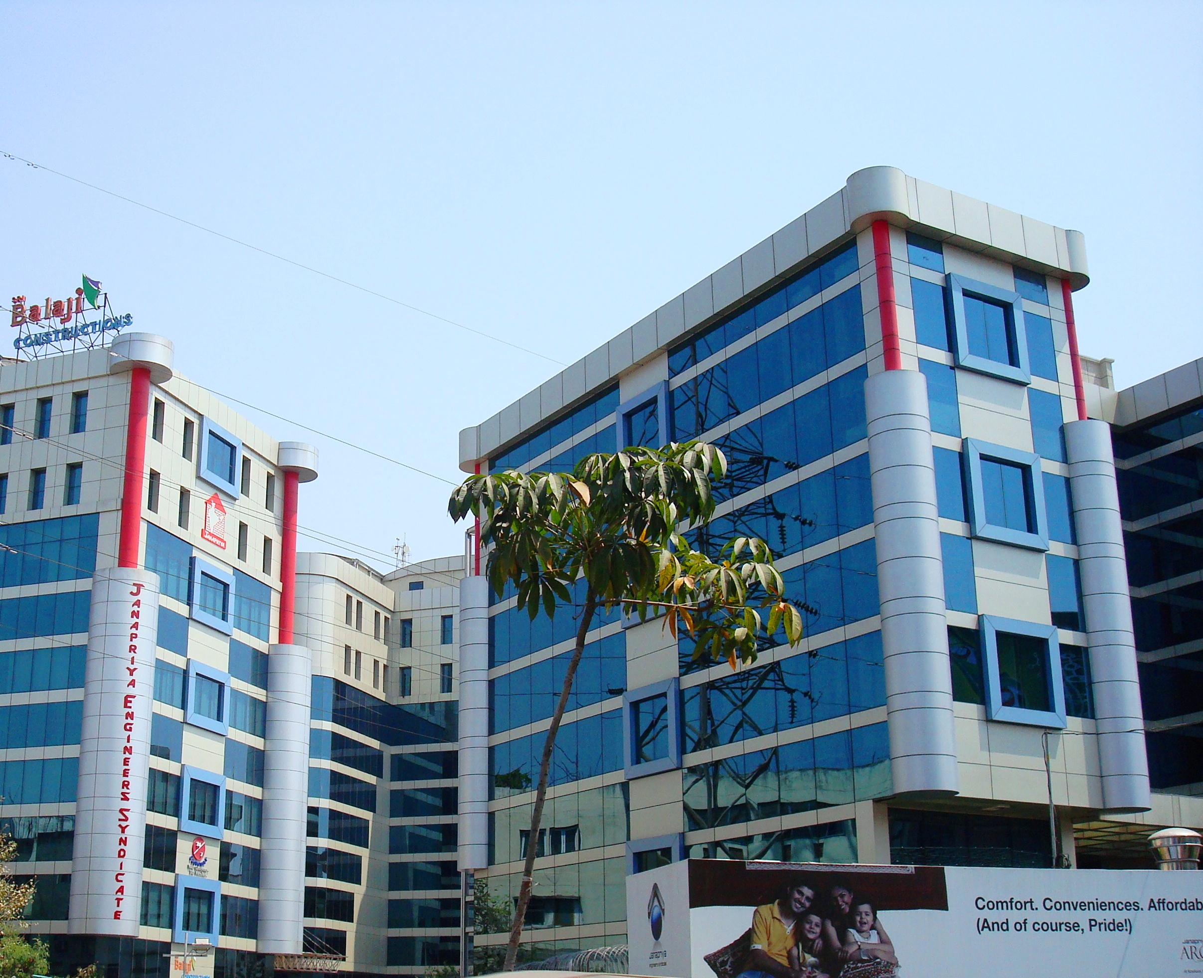 The Somajiguda area in the city, where real estate and commercialisation is on the rise.